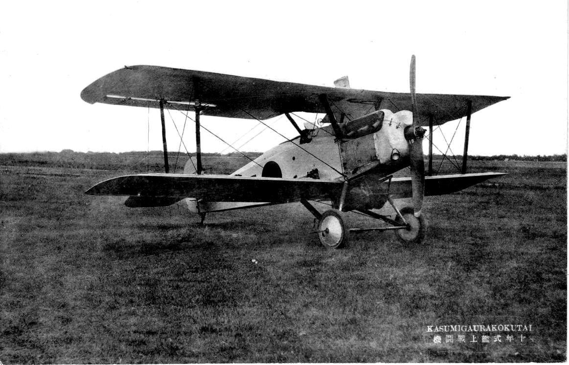 A Mitsubishi 1MF3A